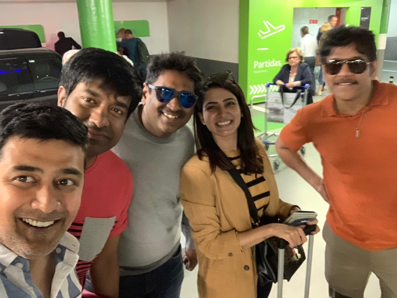 Manmadhudu 2